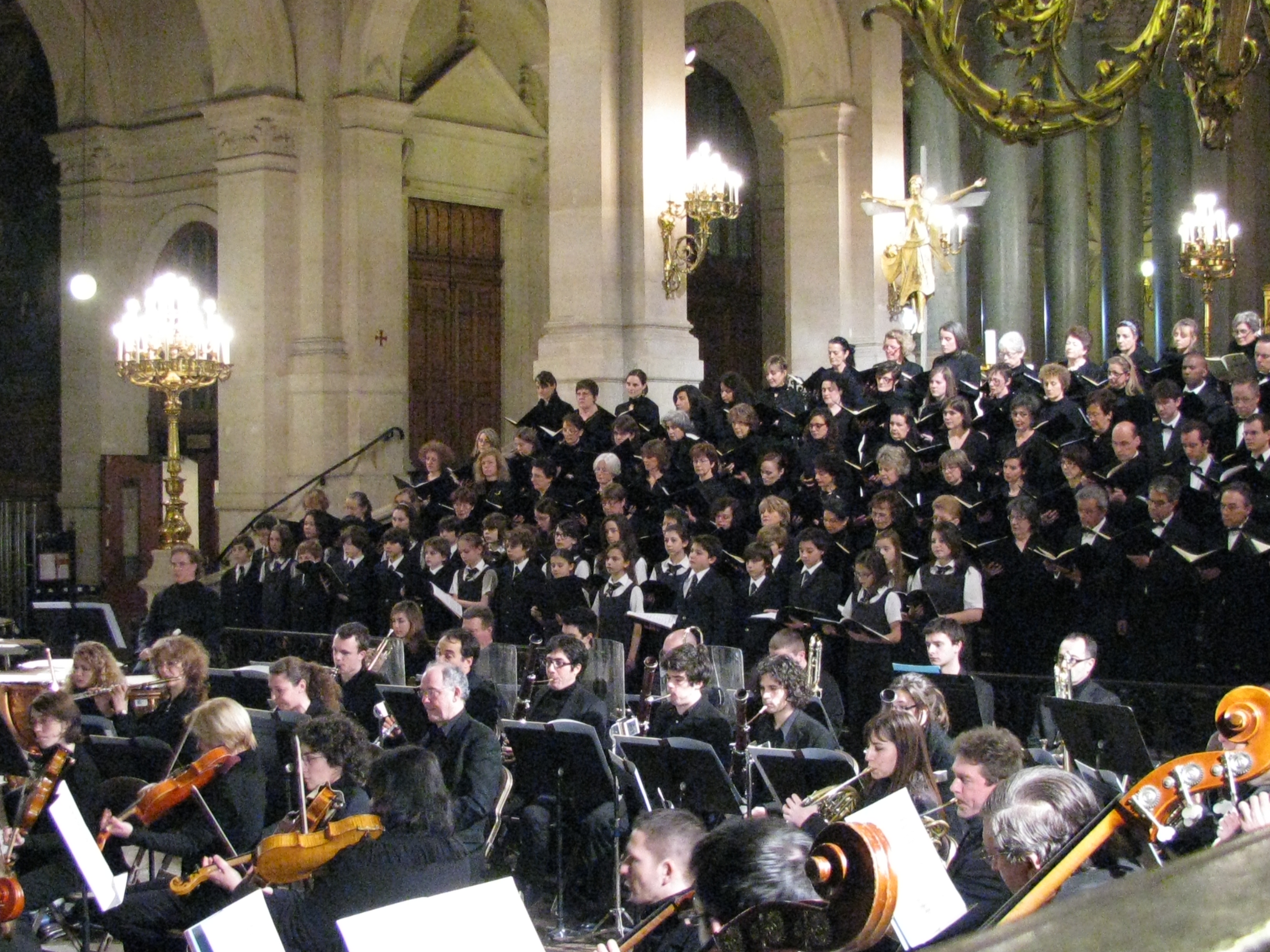 Concert in the Trinite